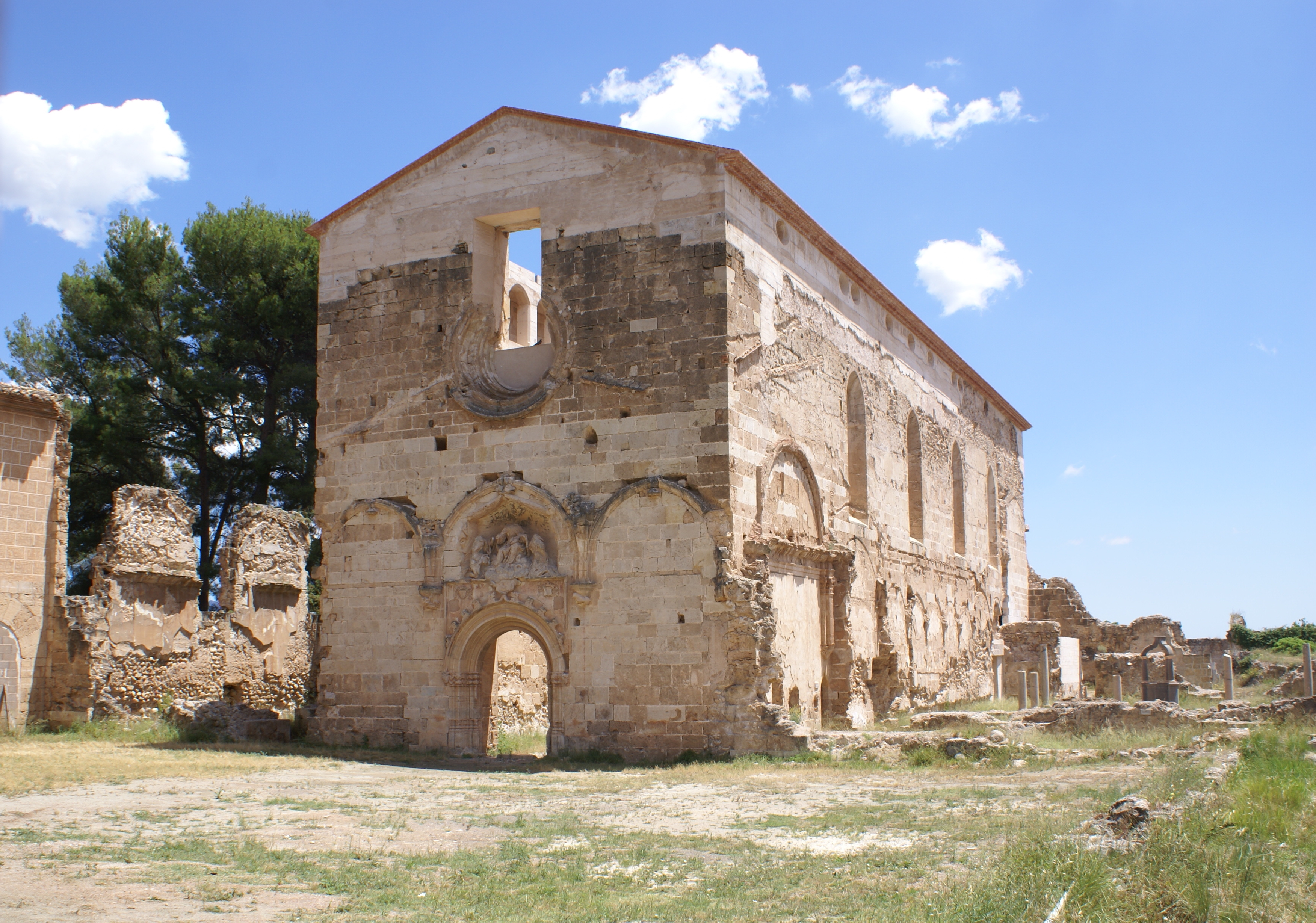 Restes de la chartreuse. Les trésors ont été déposés à la cathédrale de segorbe.